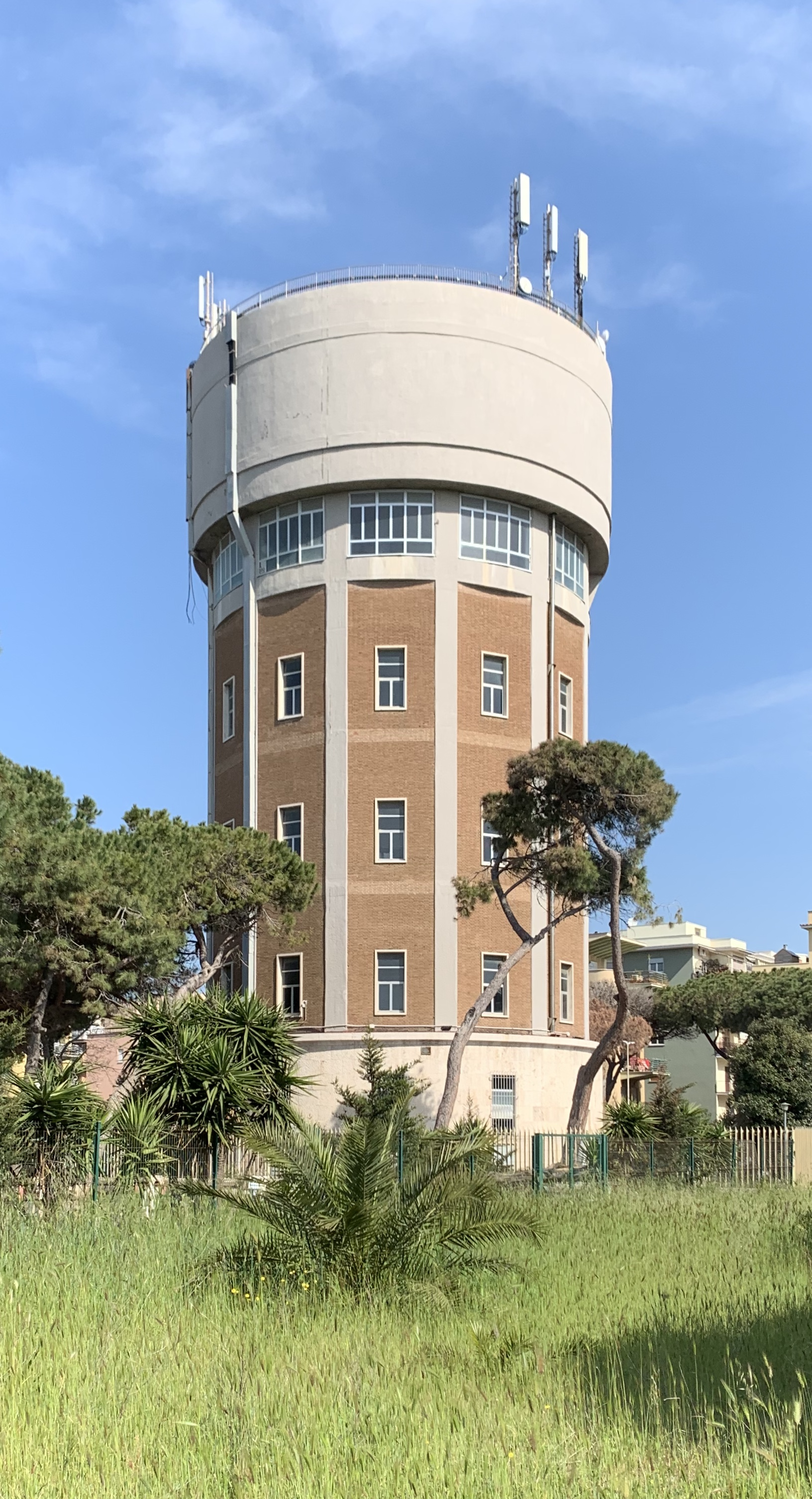 Potable Water Tank, Ostia